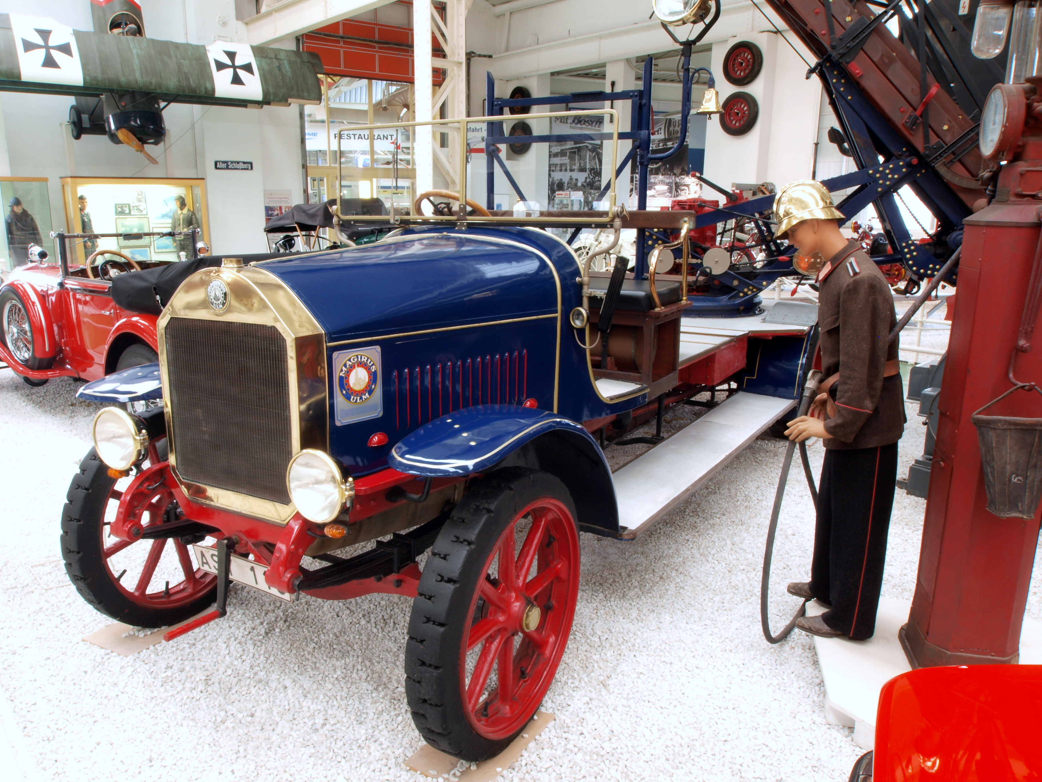 Photographed at the Technik Museum Speyer, Germany. OLYMPUS DIGITAL CAMERA